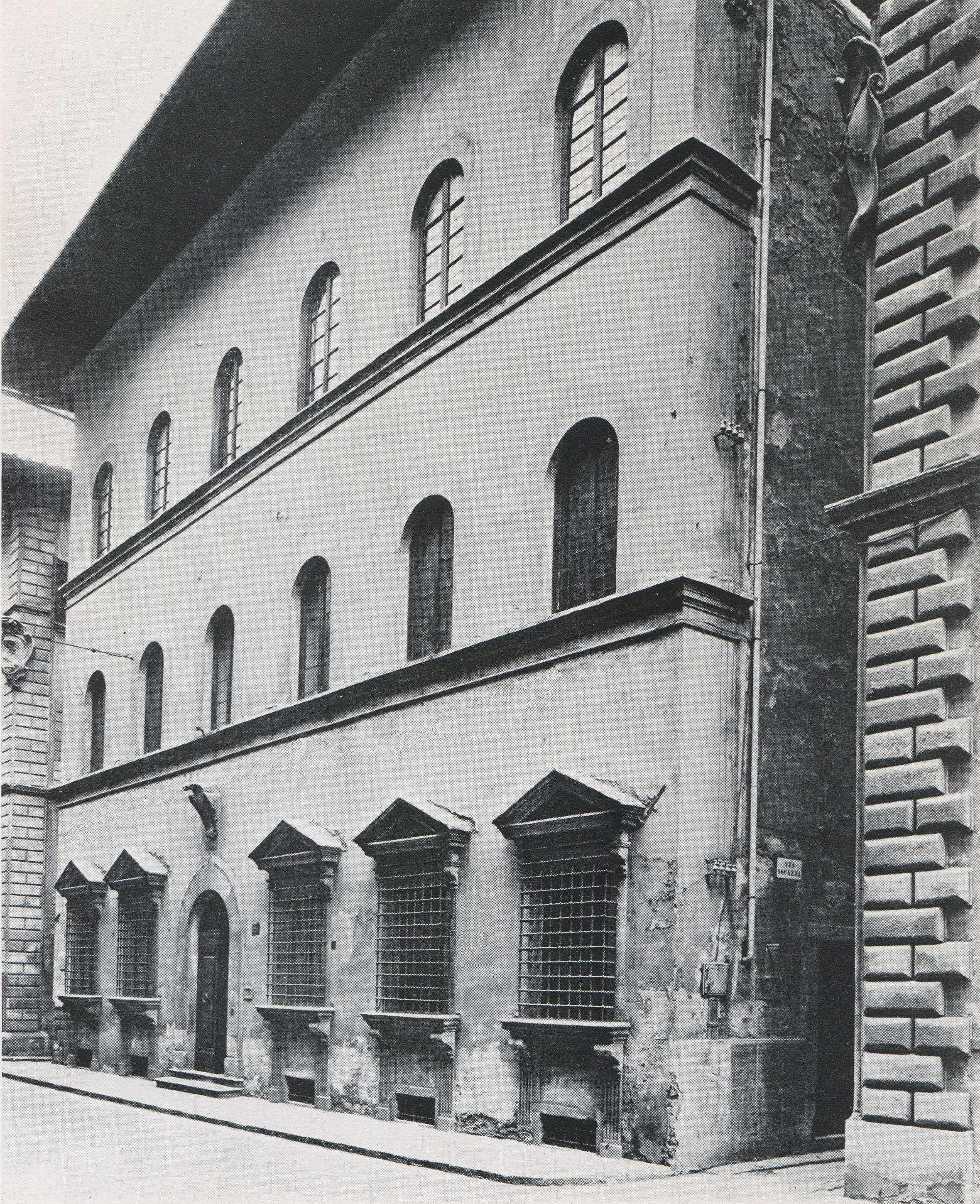 Michelozzi Palace - Florence (in 1934)